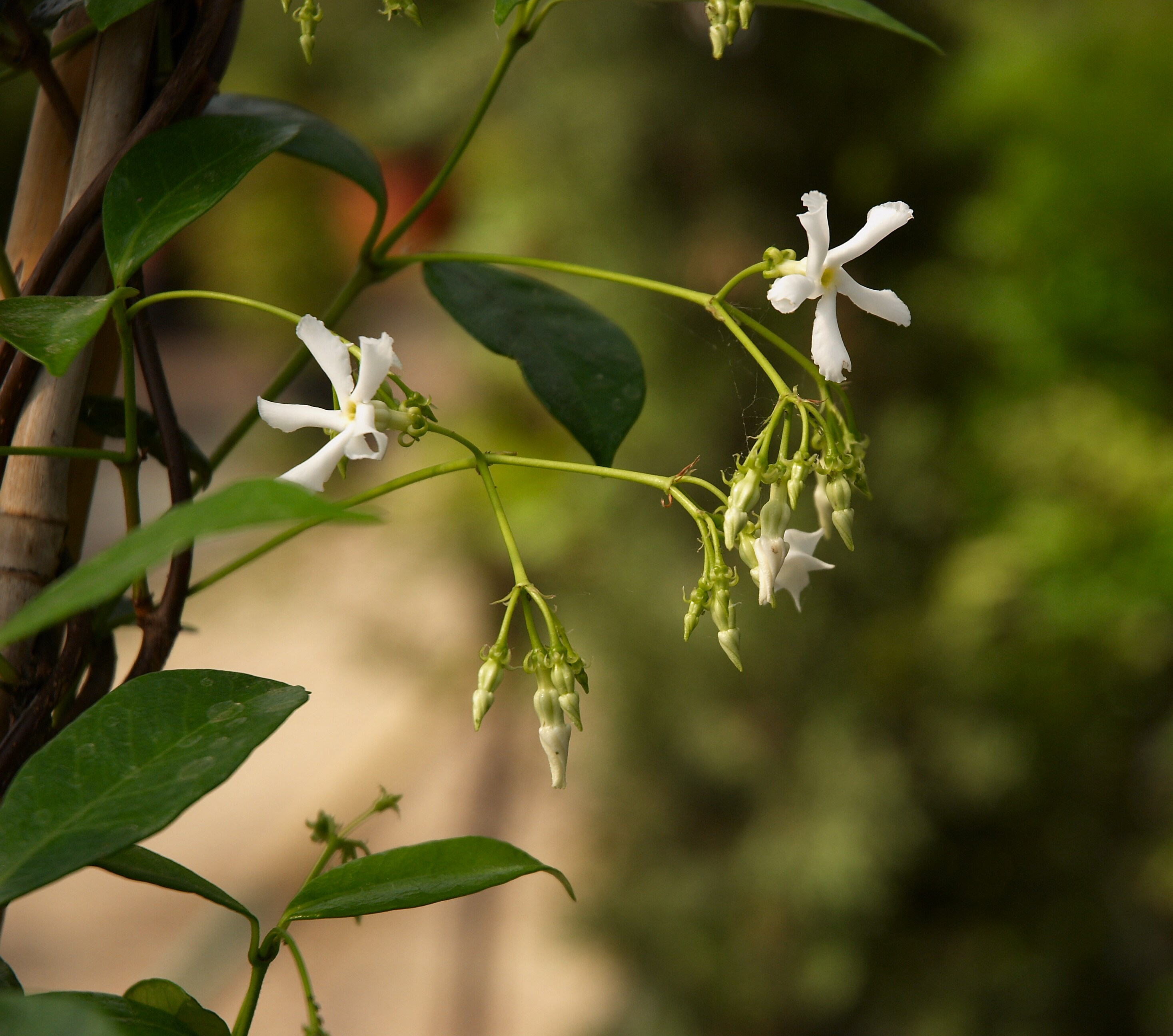 Star-jasmine or Confederate-jasmine